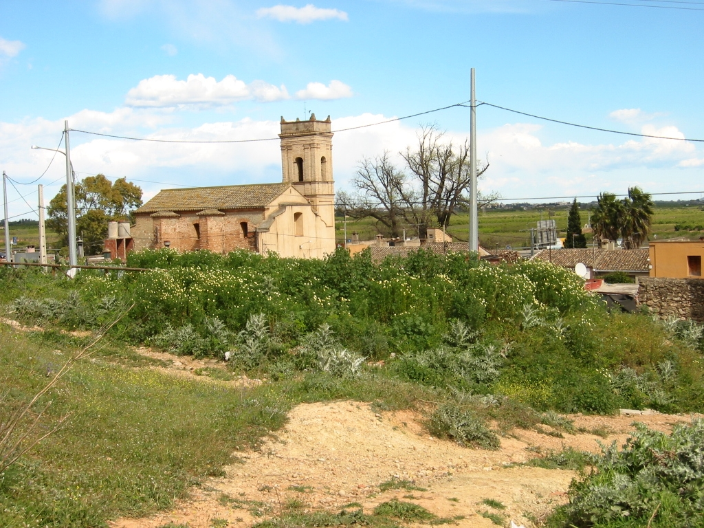 Church in Montortal.